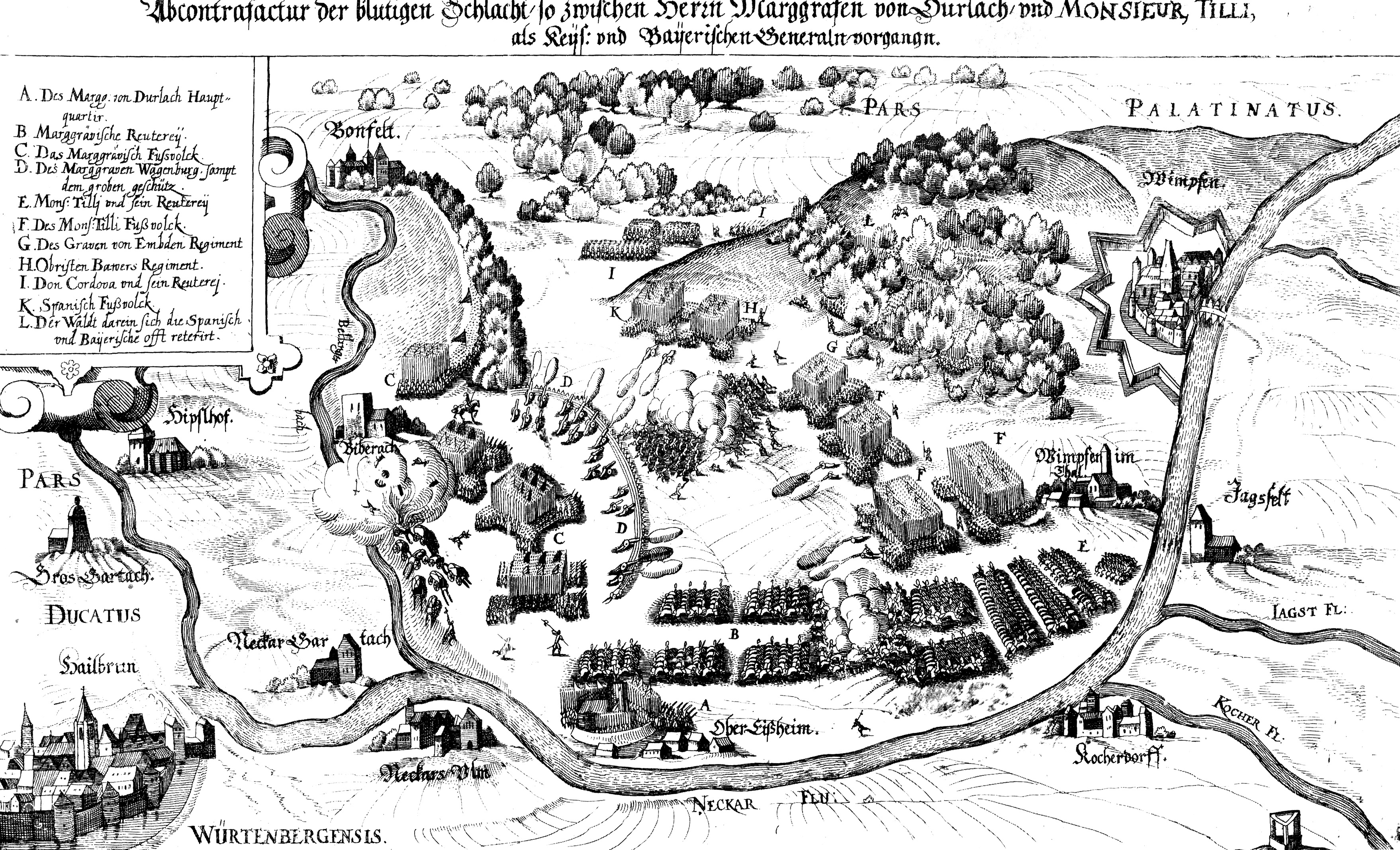 Battlefield view from the east: Wimpfen top right; Heilbronn bottom left; Neckar river flows from bottom left to top right. The protestant position has its back to Böllinger Bach brook. A large explosion is visible in their camp. On their right (eastern) flank cavalry is skirmishing. Their center is under attack by infantry.